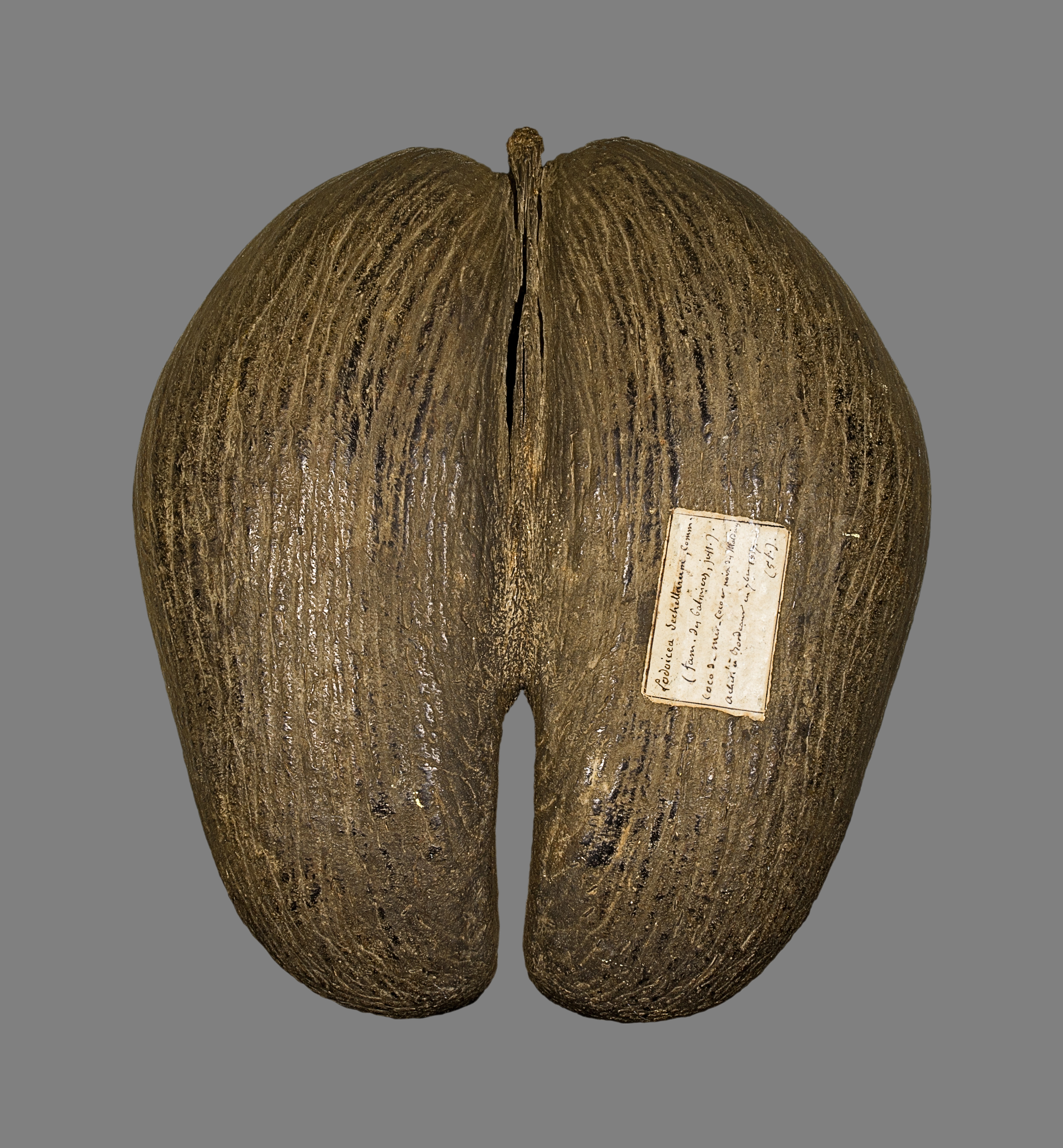 Lodoicea maldivica - Ripe fruit of Coco de Mer - Old collection of de Benjamin Balansa (1825-1891) Size : 30x27x15 cm